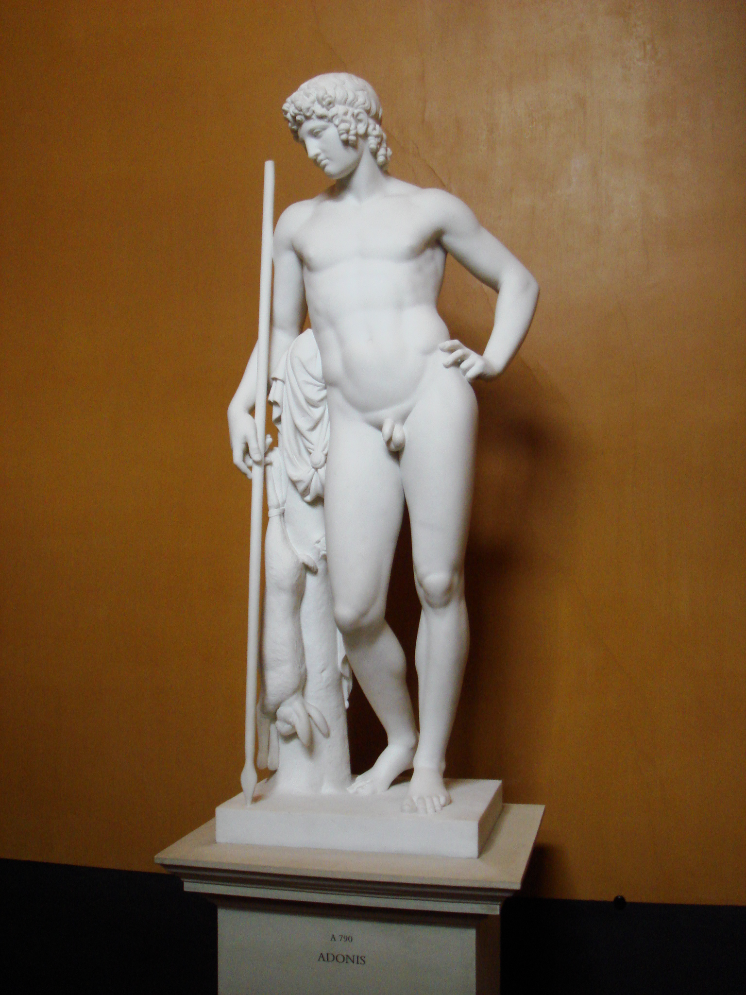 Statue of Adonis of Bertel Thorvaldsen. Museo Thorvaldsen, Copenhagen. Picture by Stefano Bolognini.